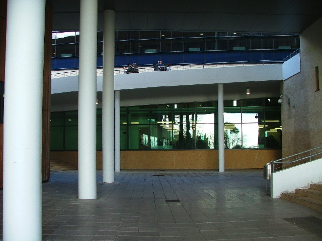 Architecture, University of Exeter in Cornwall. Developed in 2004, the Tremough Campus close to Penryn/Falmouth includes some good architectural design - this view looking north from a point outside of the Student's Union, showing support piles, to the left, and a glass facade,ahead.